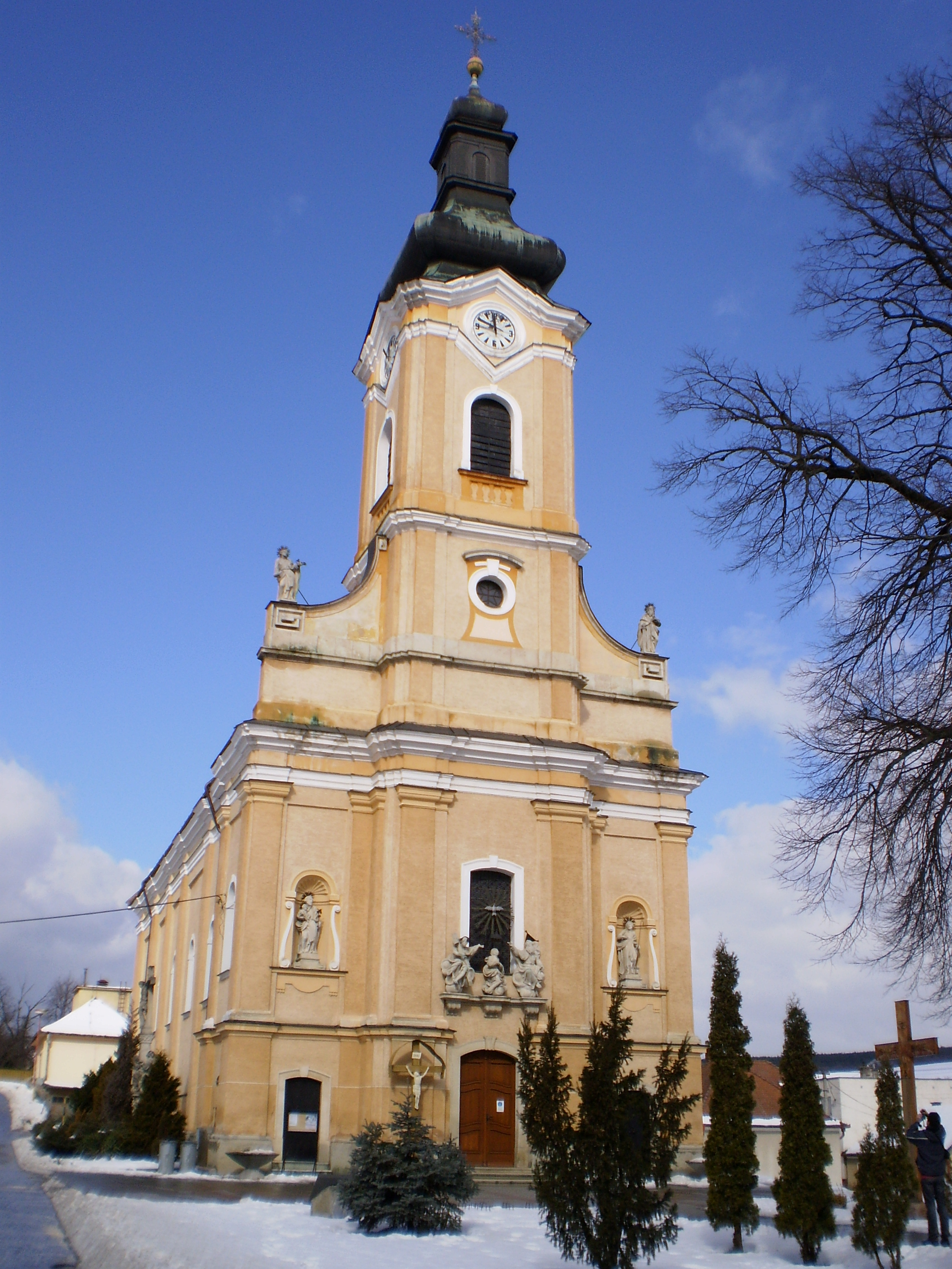 Picture of church in Chtelnica